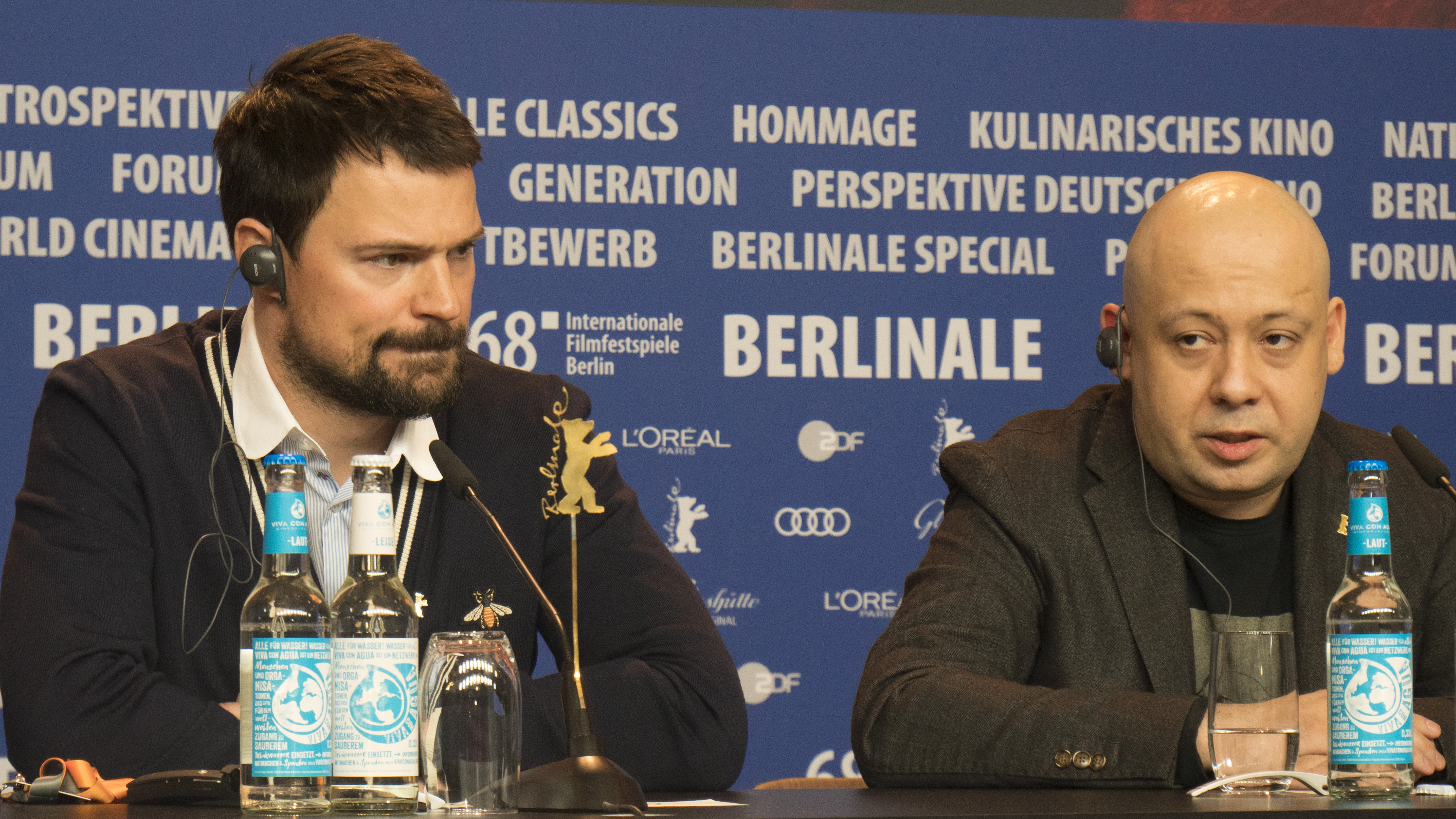 Danila Kozlovsky and Alexei German Jr. at the press conference of Dovlatov at Berlinale 2018.